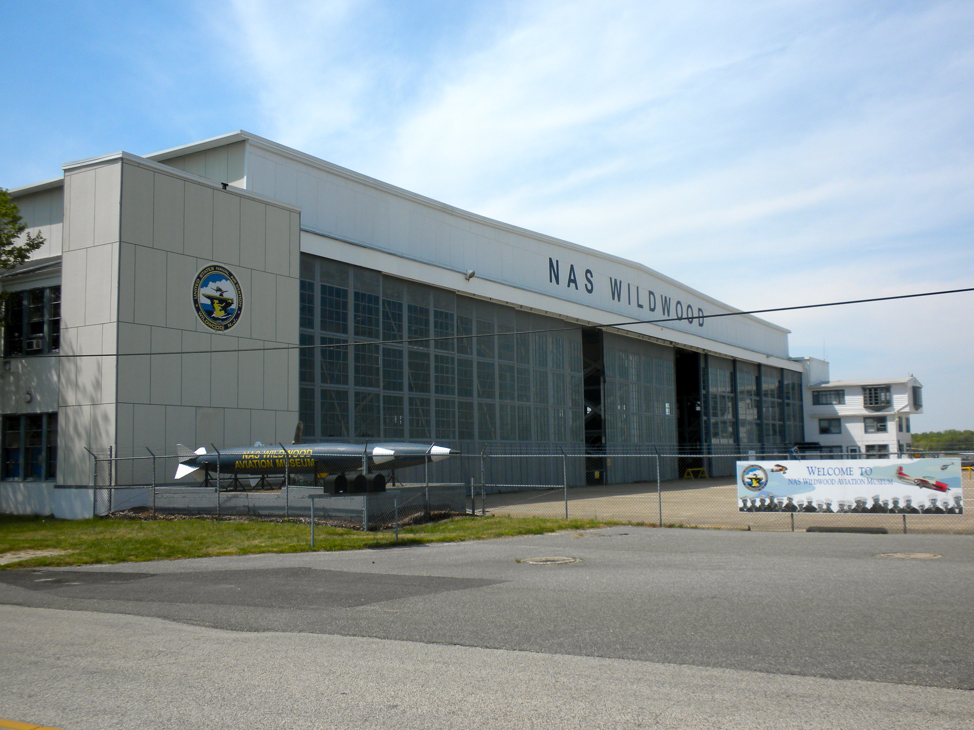 Naval Air Station Wildwood, in Rio Grande, NJ near the beach town of Wildwild, NJ.This is Hangar 1 is on the National Register of Historic Places since August 21, 1997 as "Hangar No. 1-United States Naval Air Station Wildwood" Jct. of Forrestal and Langley Rds., Cape May Airport, Lower Township, Cape May, NJ